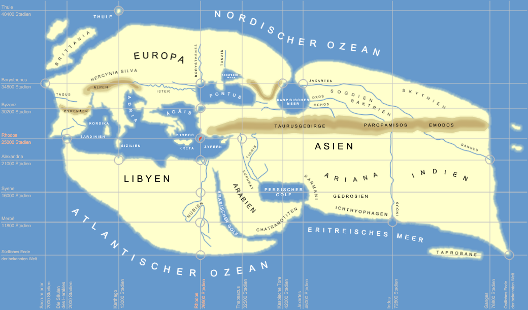 Reconstruction of a map of the known world around 194 BC. according to Eratosthenes